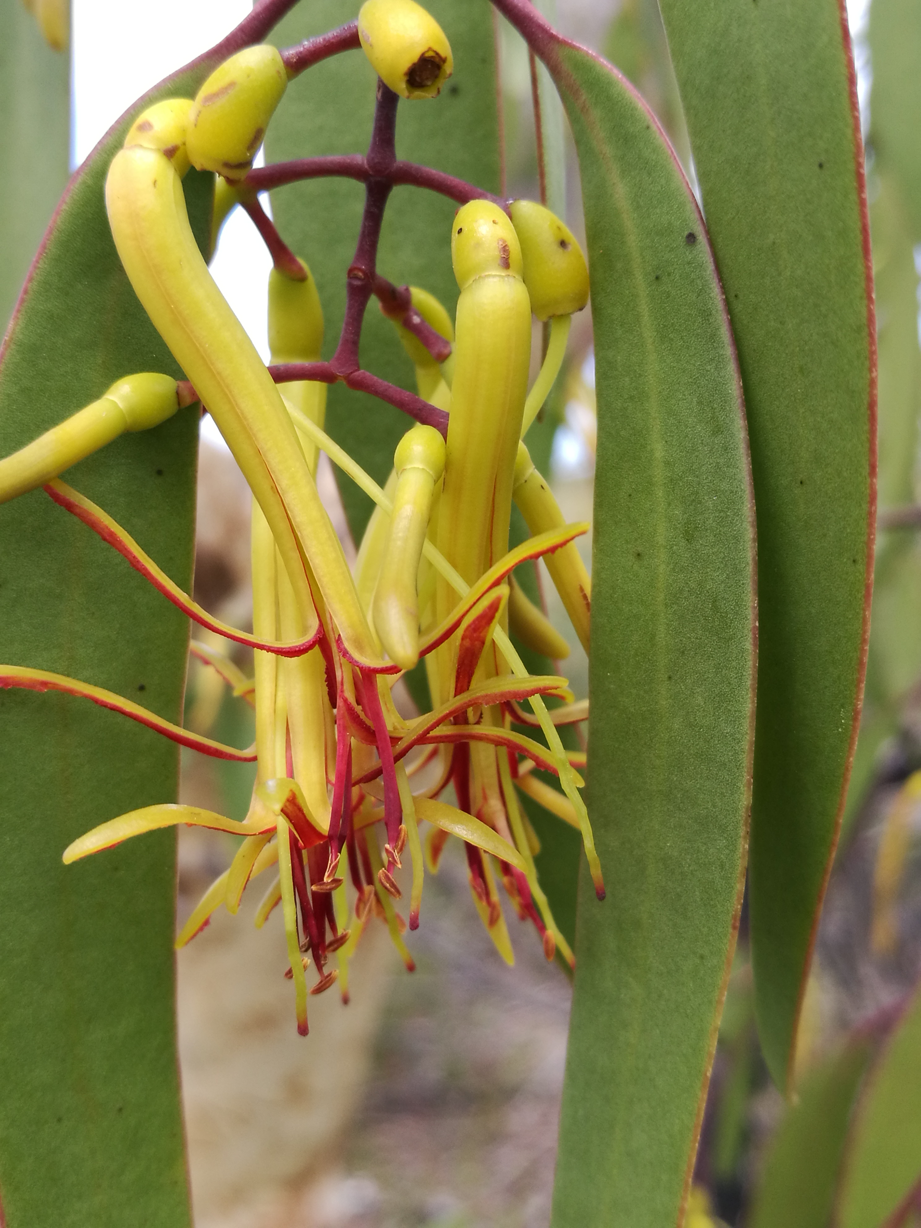 Mistletoe, Muellerina eucalyptoides, Waratah Track, Ku-ring-gai Chase National Park, NSW, Australia. The host was the eucalypt, Eucalyptus haemastoma. January 27, 2017. GPS Latitude Ref - South GPS Latitude - 33 deg 38' 26.72" GPS Longitude Ref - East GPS Longitude - 151 deg 15' 26.31" GPS Altitude Ref - Above Sea Level GPS Altitude - 210.96 m